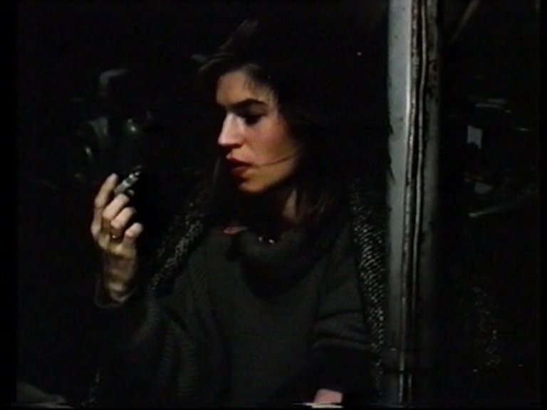 There is a chance for Petra (Actor: Marina Braun) ? Still picture is a frame of the movie KOKAIN - Das Tagebuch der Inga L., Produced by G.Schlesinger